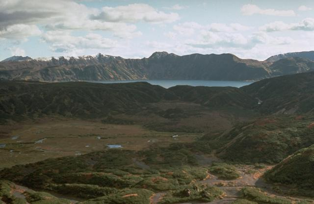 Akademia Nauk volcano as seen from the slopes of the volcano Karymsky in the direction of the southeast